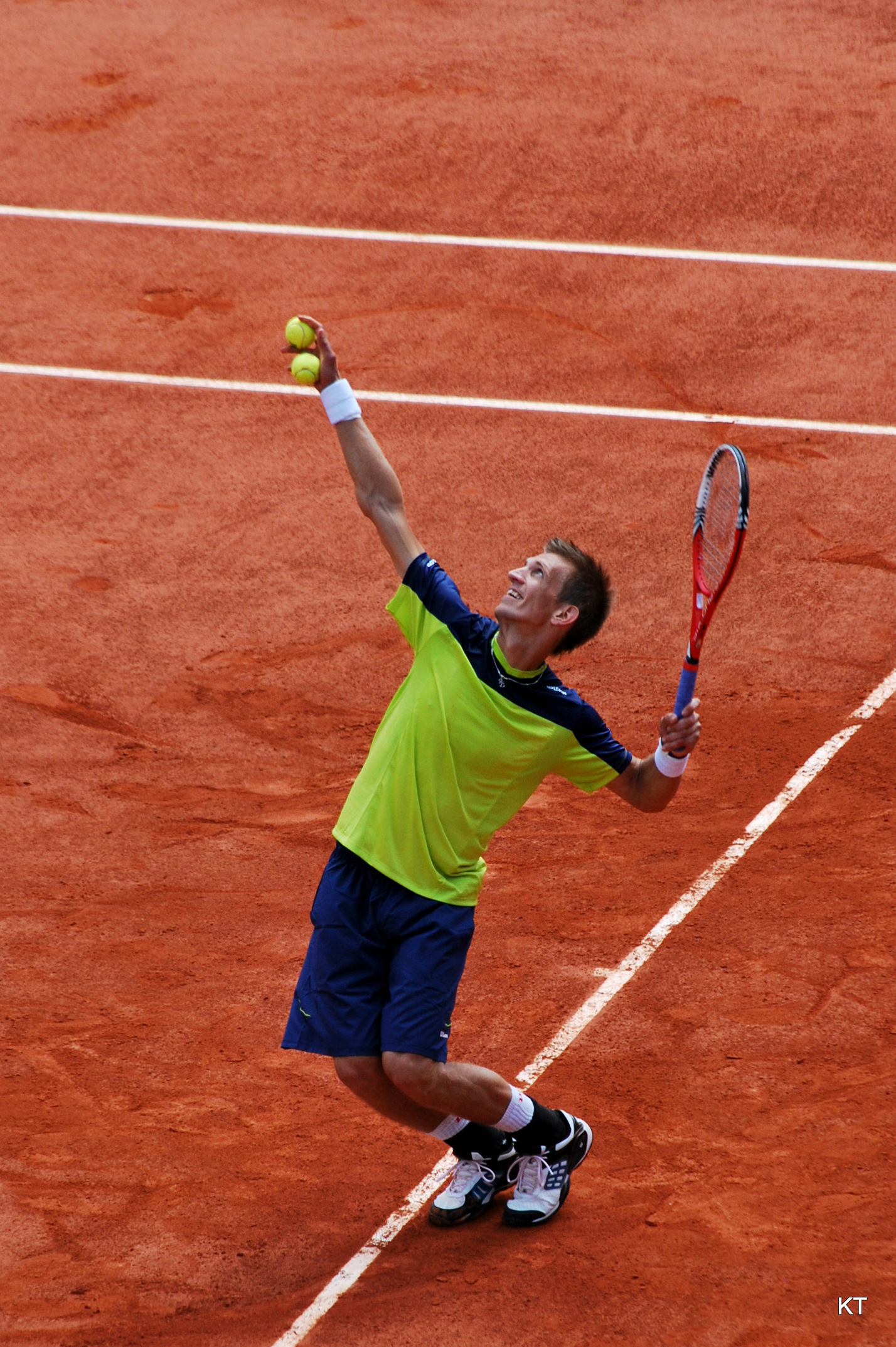 Andy Murray during his 2nd round match with Jarkko Nieminen. Murray won 1-6, 6-4, 6-1, 6-2. Day 5 of Roland Garros 2012.